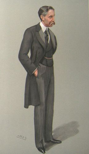 Caricature of the Hon. Sir Michael Henry Herbert (1857-1904). Caption read "Washington".